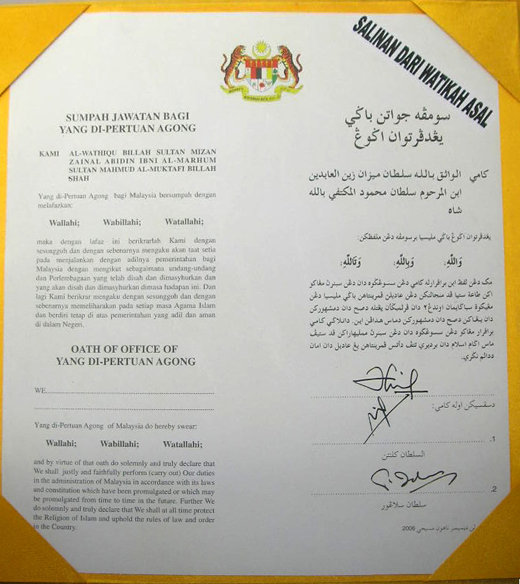 The Oath of Office of His Majesty, the XIII Yang di-Pertuan Agong. Courtesy of the office of the Keeper of the Rulers' Seal, Conference of the Rulers of Malaysia.